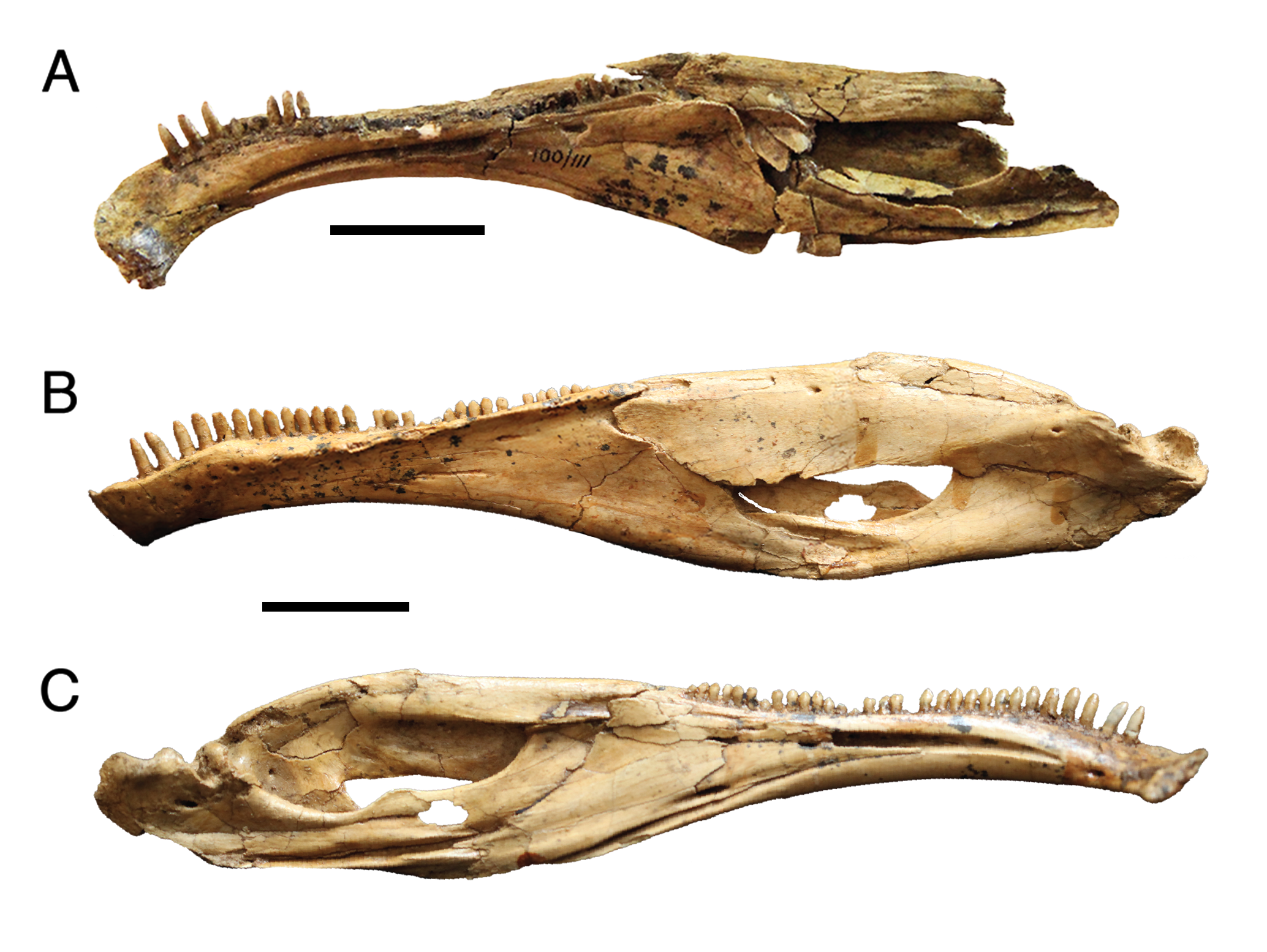 Right hemimandible of Erlikosaurus andrewsi MPC-D 100/111 in (A) medial view, and left hemimandible in (B) lateral and (C) medial views. Scale bar equals 3 cm.